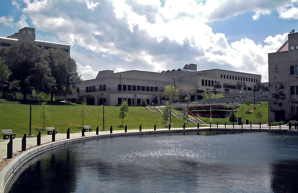 Northern Kentucky University lake (2 of 3).